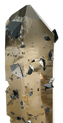 Anatase, Quartz Locality: Hardangervidda, Hordaland, Norway (Locality at ) Size: 9.3 x 2.6 x 2.8 cm. This is a stunning, complete all-around and water-clear, slightly smoky quartz crystal that is festooned with lustrous anatase crystals to 9 mm. It is from the classic locale of from Hardangervidda, Norway. The anatase crystals are embedded both on and within the smoky quartz, uncommon for the locality. Ex. Dr. Gary Hansen, Smithsonian, Geology Museum at the University of Oslo Collections.